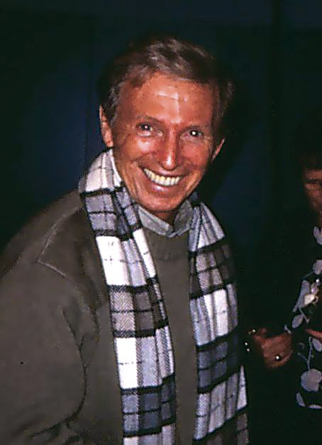 Tommy Steele visiting Aalborg. November 6, 1999.